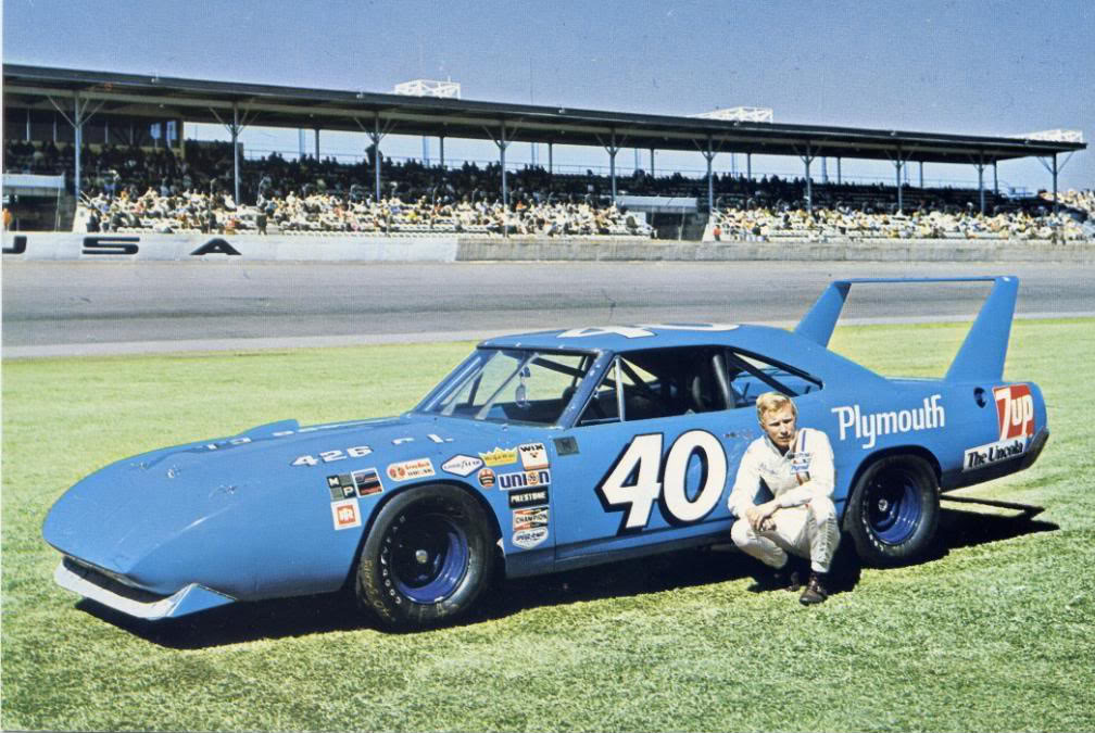 1970 Plymouth Superbird driven by Pete Hamilton in the 1970 season SuperSpeedway races